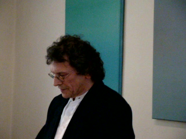 Johannes Bauer during a lecture on abstract painting in Berlin (2017)